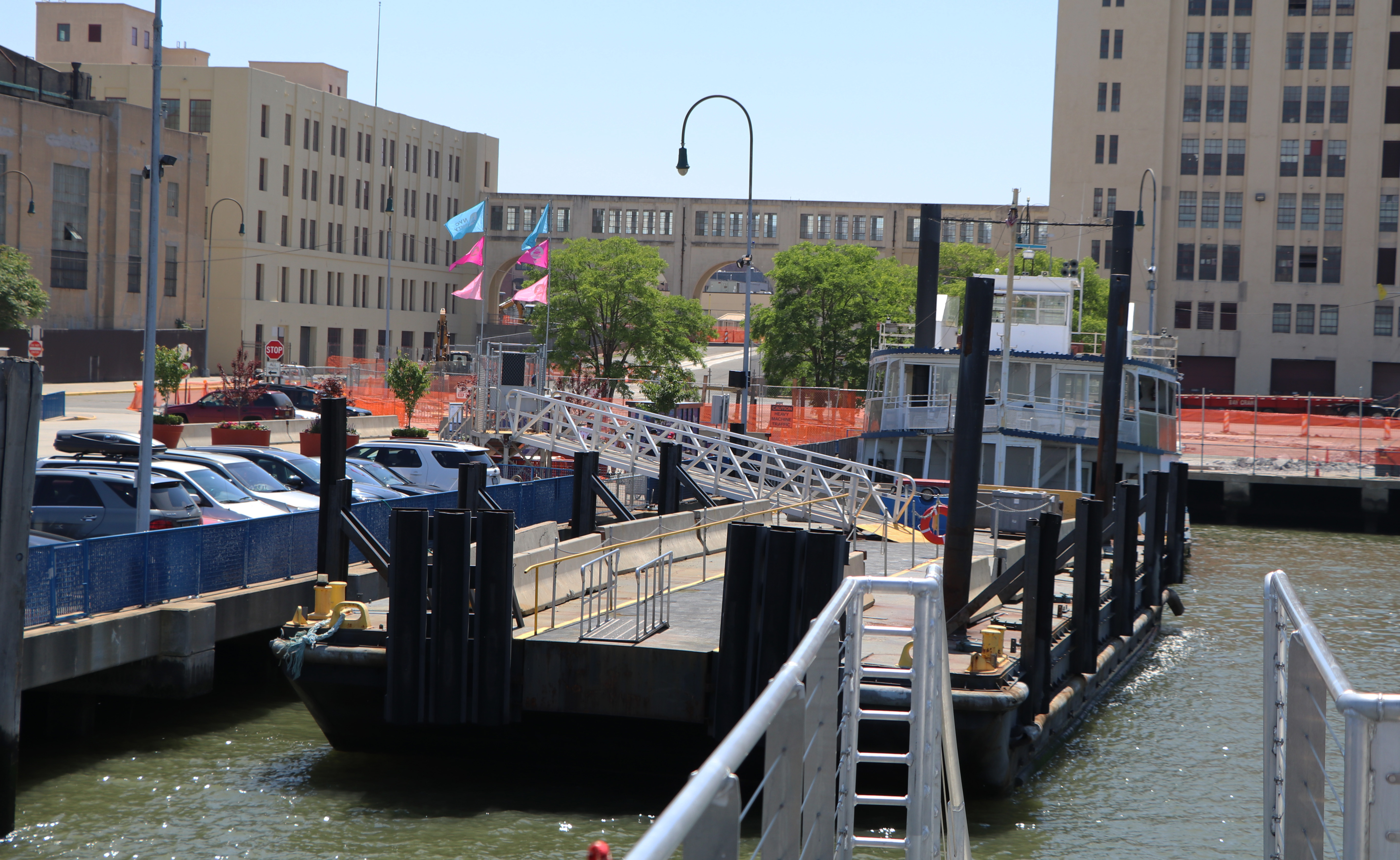 NYC Ferry boat arrives Brooklyn Army Terminal.